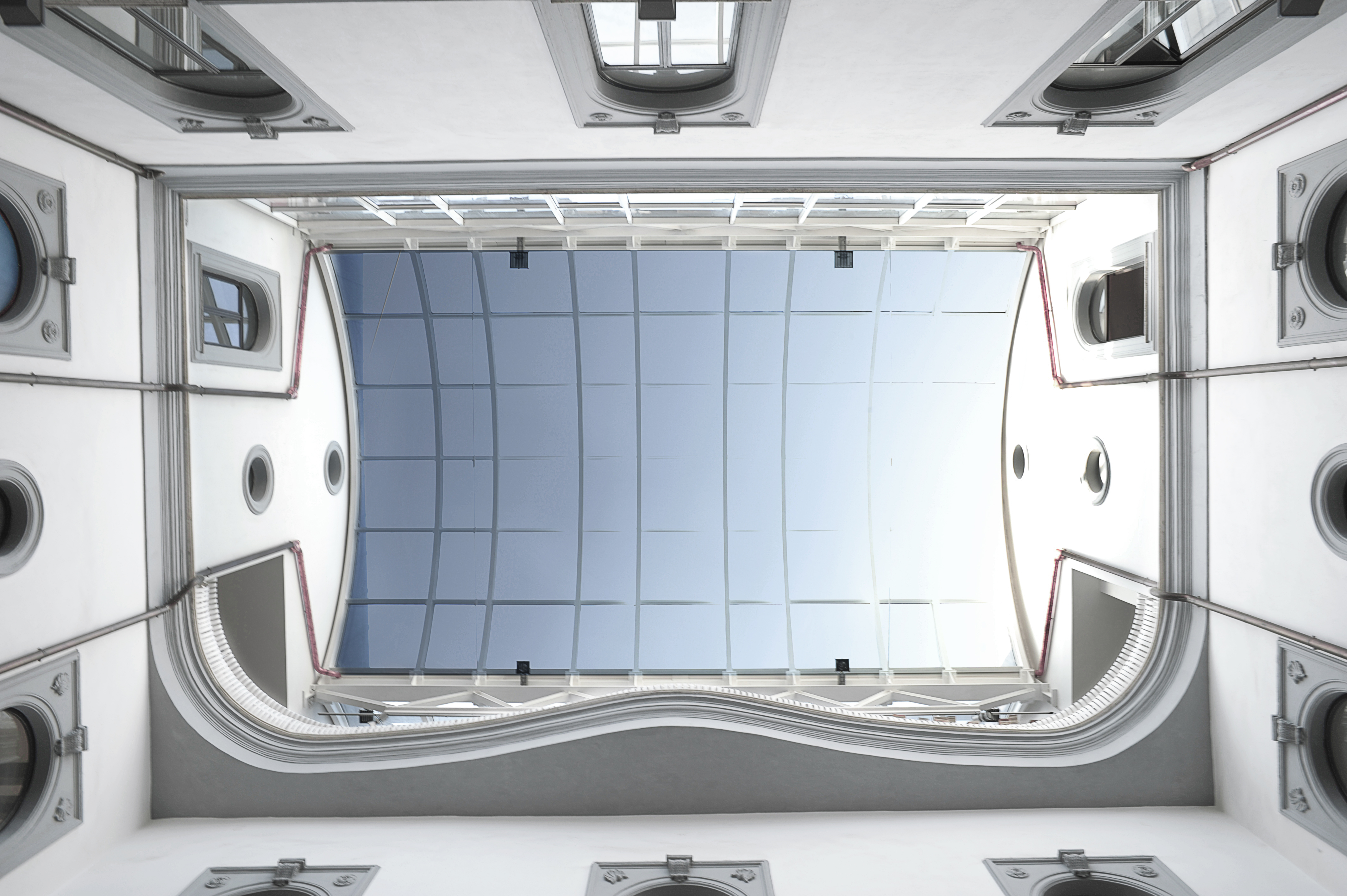 Glass geiling of the courtyard of Terni city hall from below This is a photo of a monument which is part of cultural heritage of Italy.